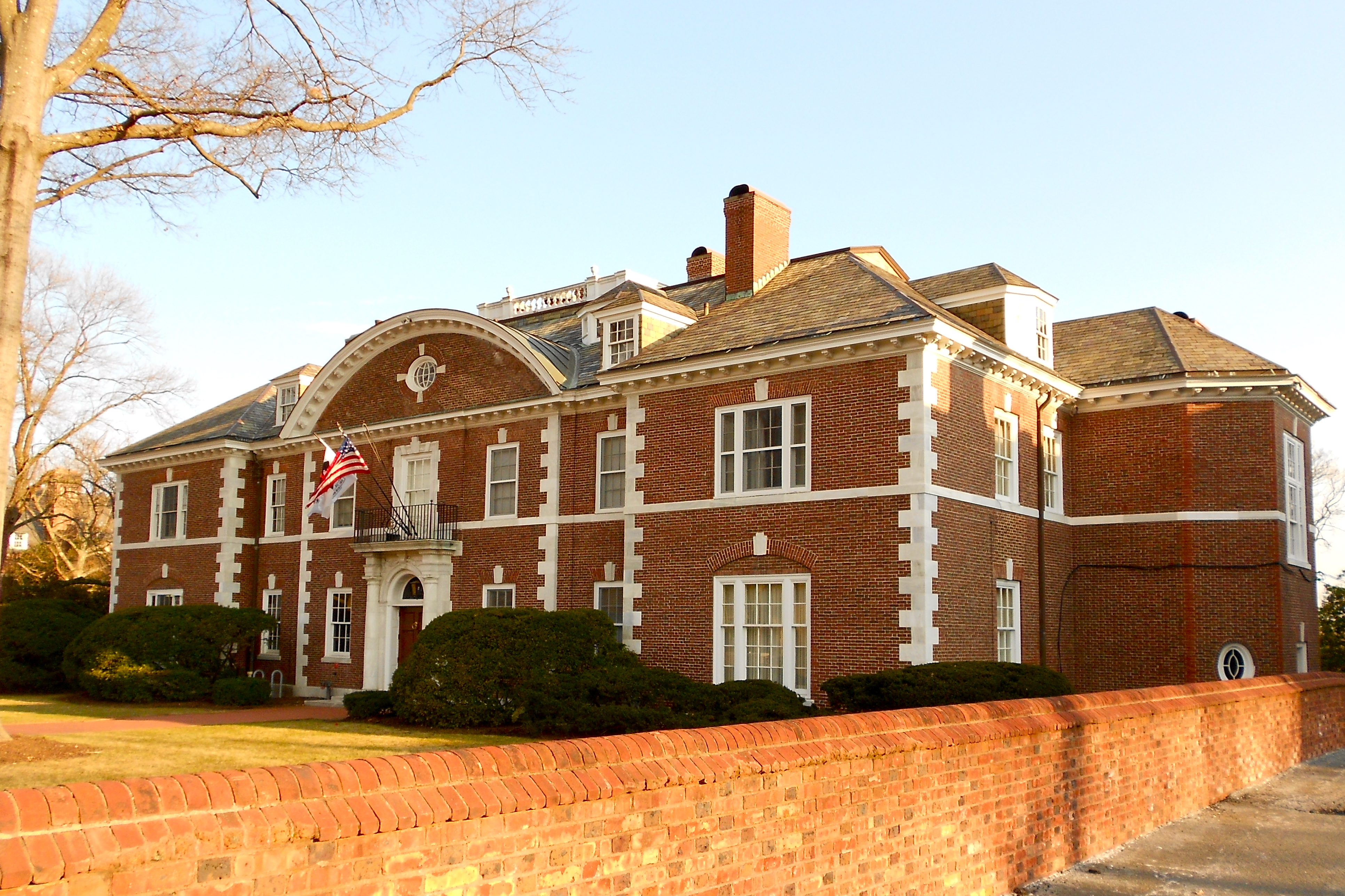 University Cottage Club operated as Eating Club at Princeton University 1886–present. 51 Prospect Ave This building built 1906. Princeton, New Jersey.